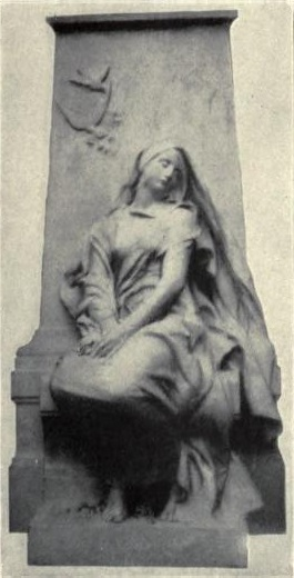 Marble Sculpture Souvenir (1885) for the tomb of Mme Charles Ferry by Antonin Mercié.